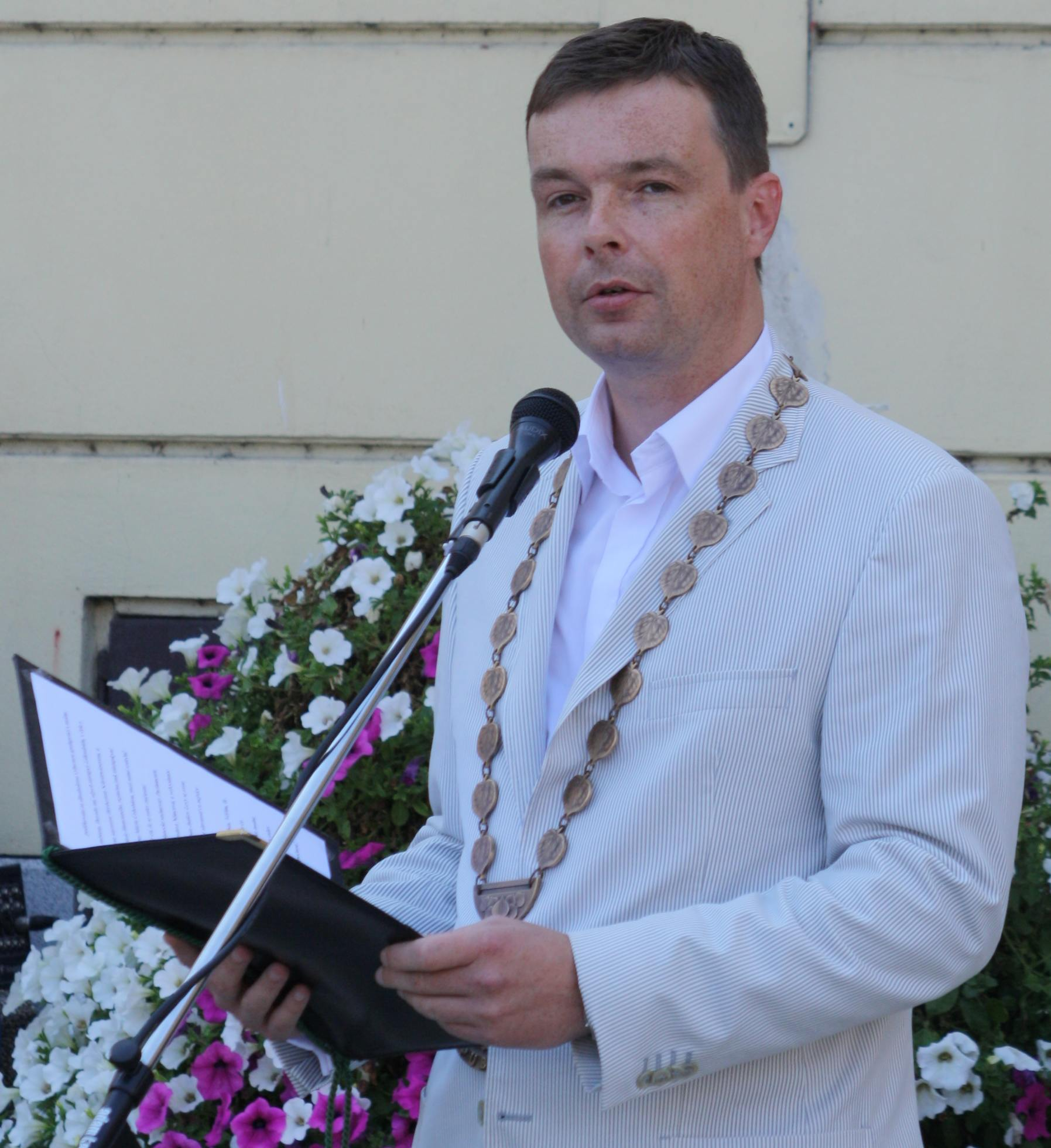 Ivo Uher at UNESCO celebrations 2009, cropped portrait.